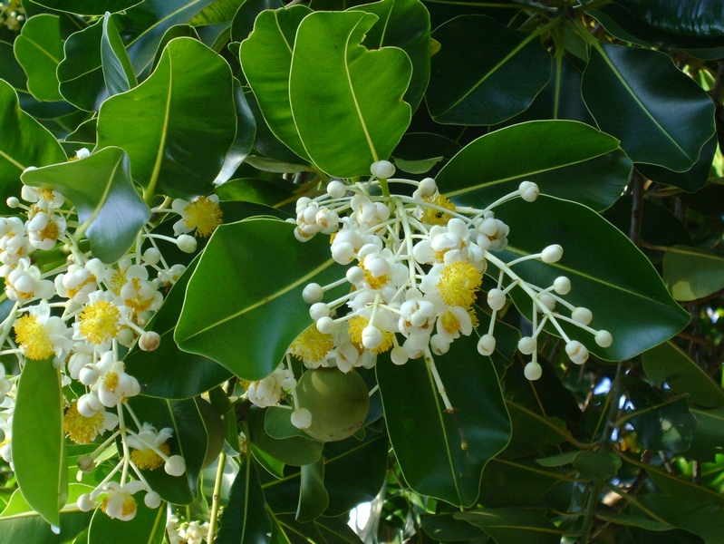 Calophyllum inophyllum Darwin, Northern Territory, Australia. It is native from East Africa, southern coastal India to Malesia and Australia - basically everywhere in tropics. America has its own species - C. brasiliense.